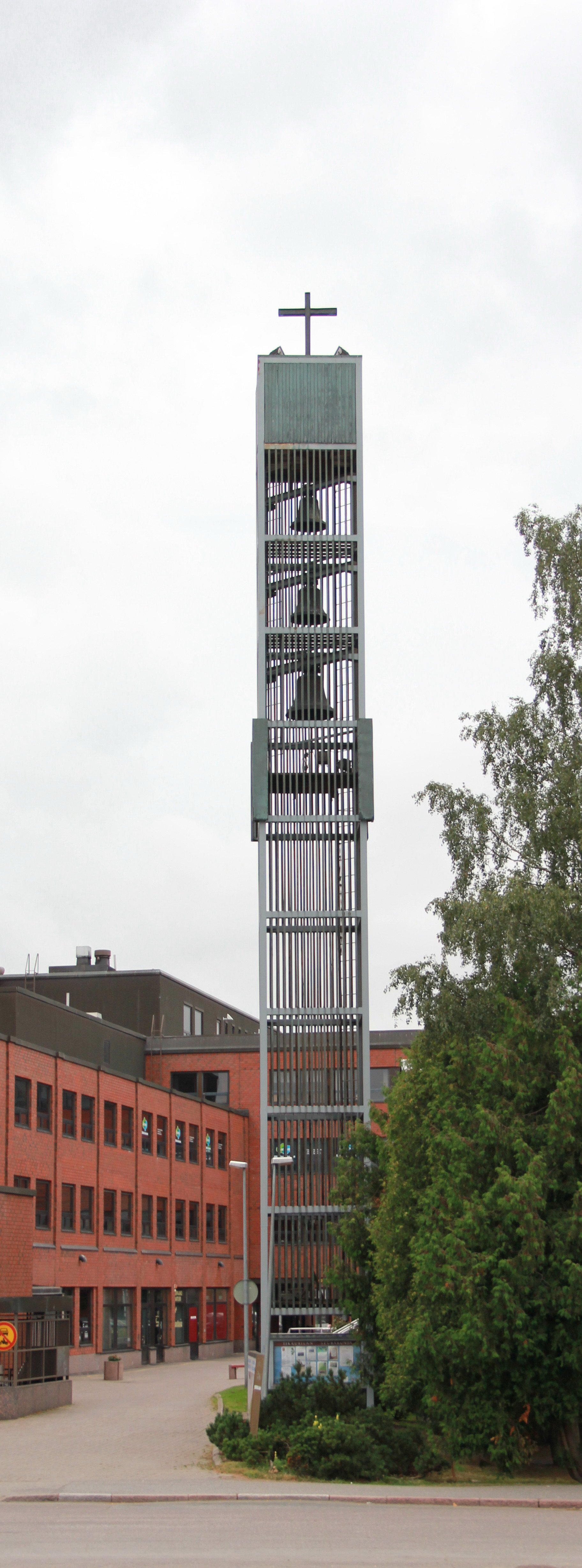 Tikkurila church, Vantaa Finland. Architects Leena and Kalle Niukkanen. Completed in 1956. Campanile (1969, Kalle Niukkanen)